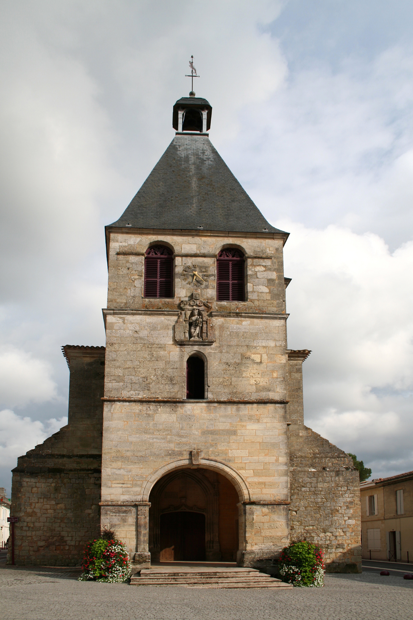 Eglise Notre-Dame de Créon (33) 15th century,16th century